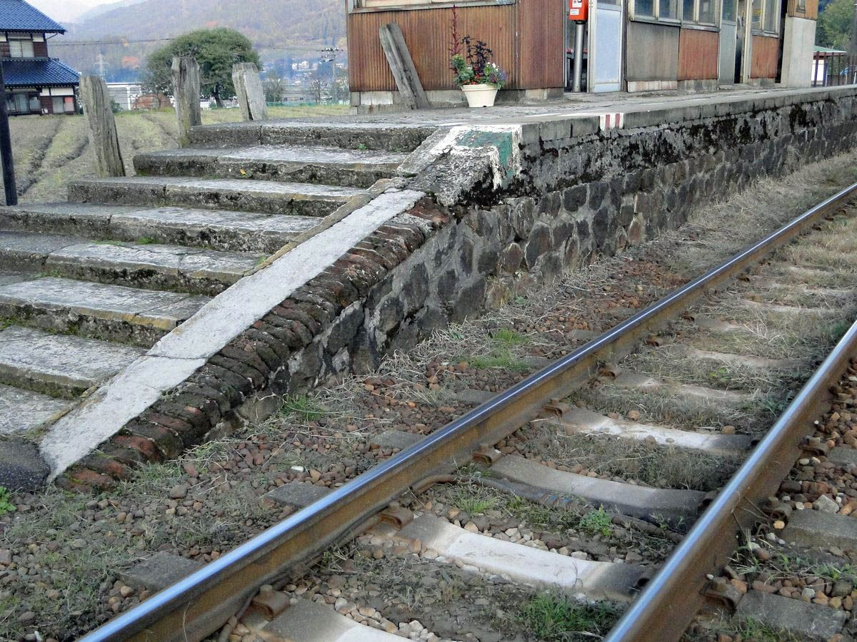 Oritate Station platform